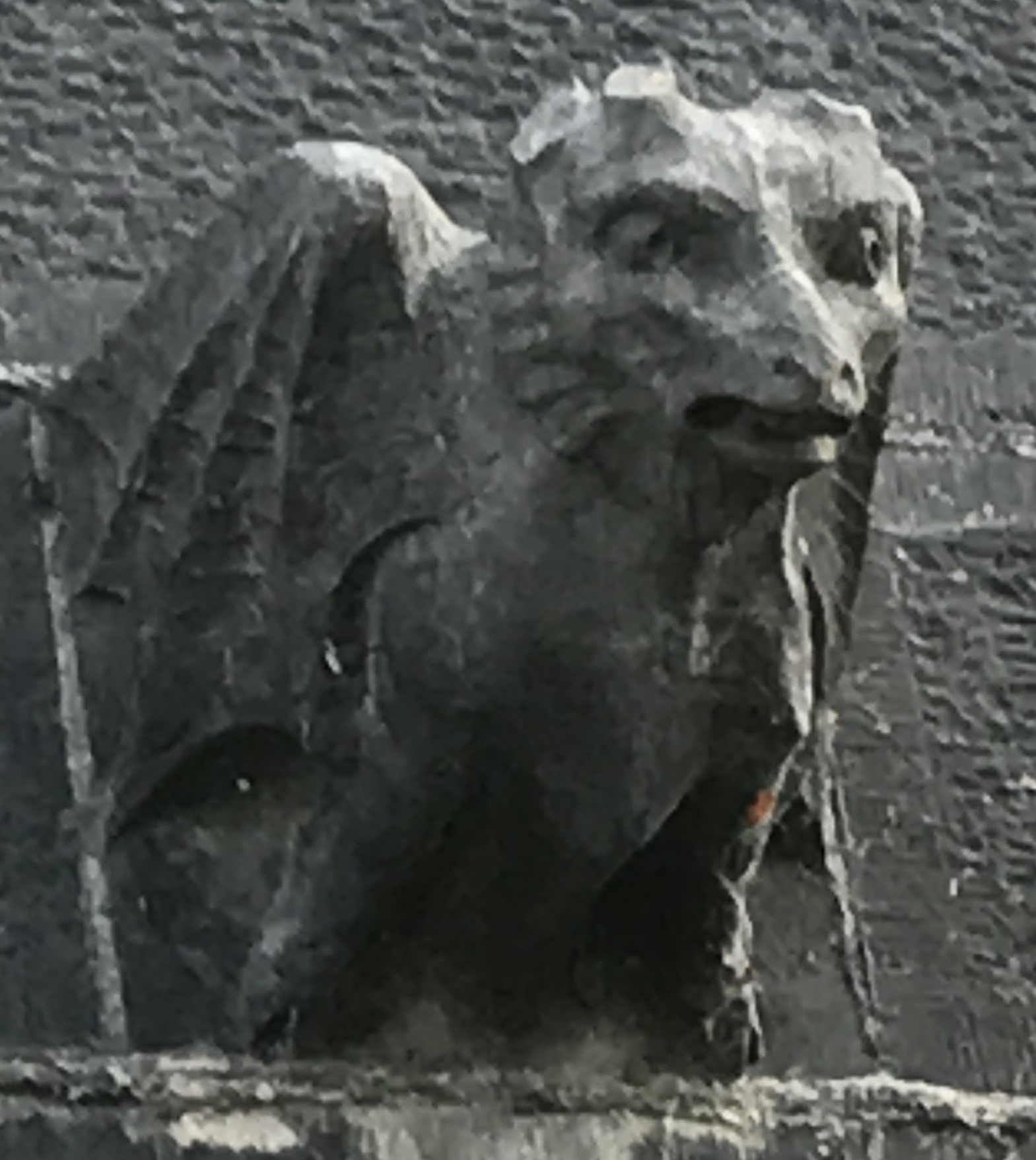 Saint Fin Barre's Cathedral, Cork